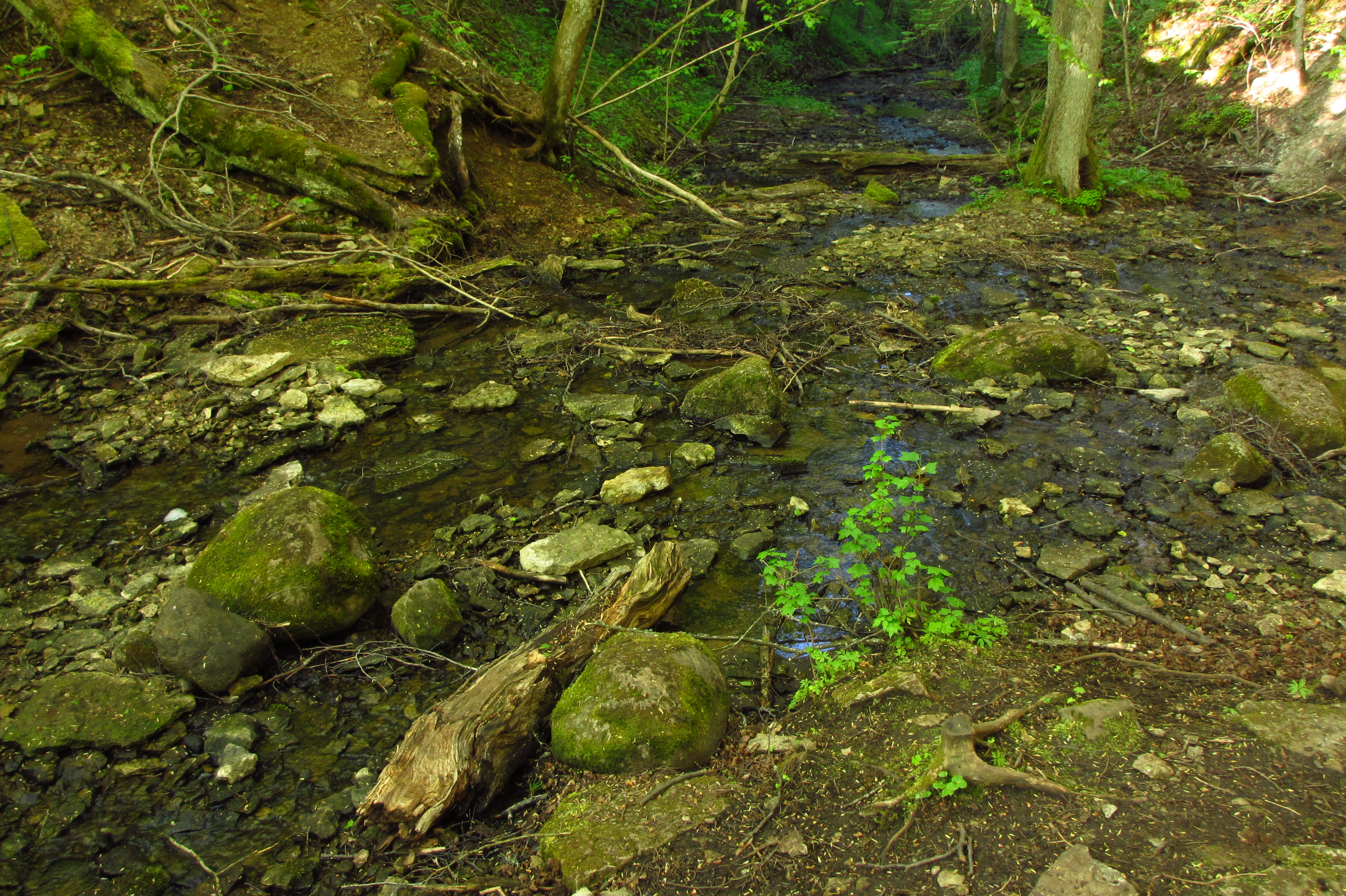 Vasaristi oja